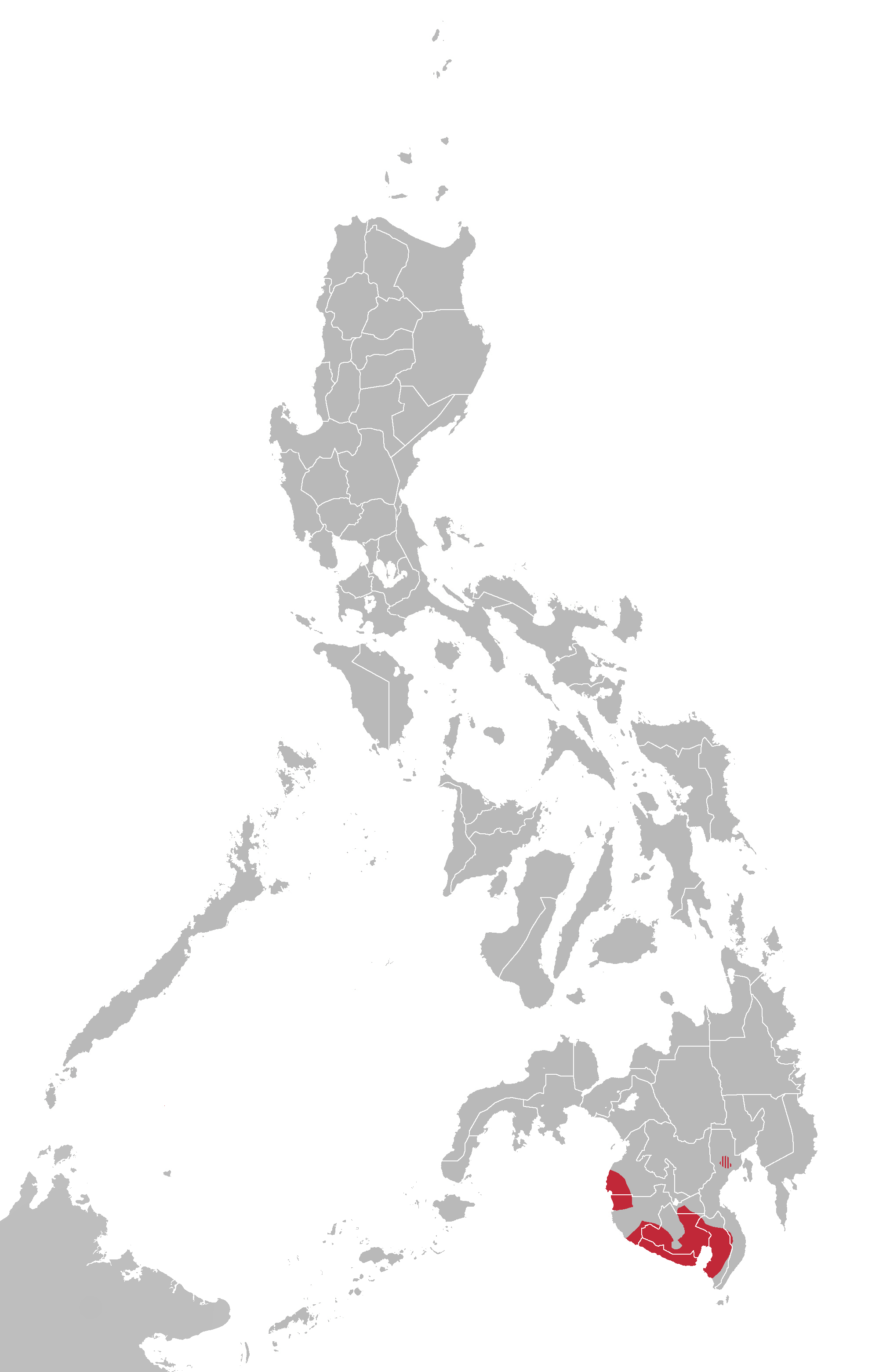 Language map of Bilic languagesTagalog: Mapa ng wika ng mga wikang Bilic